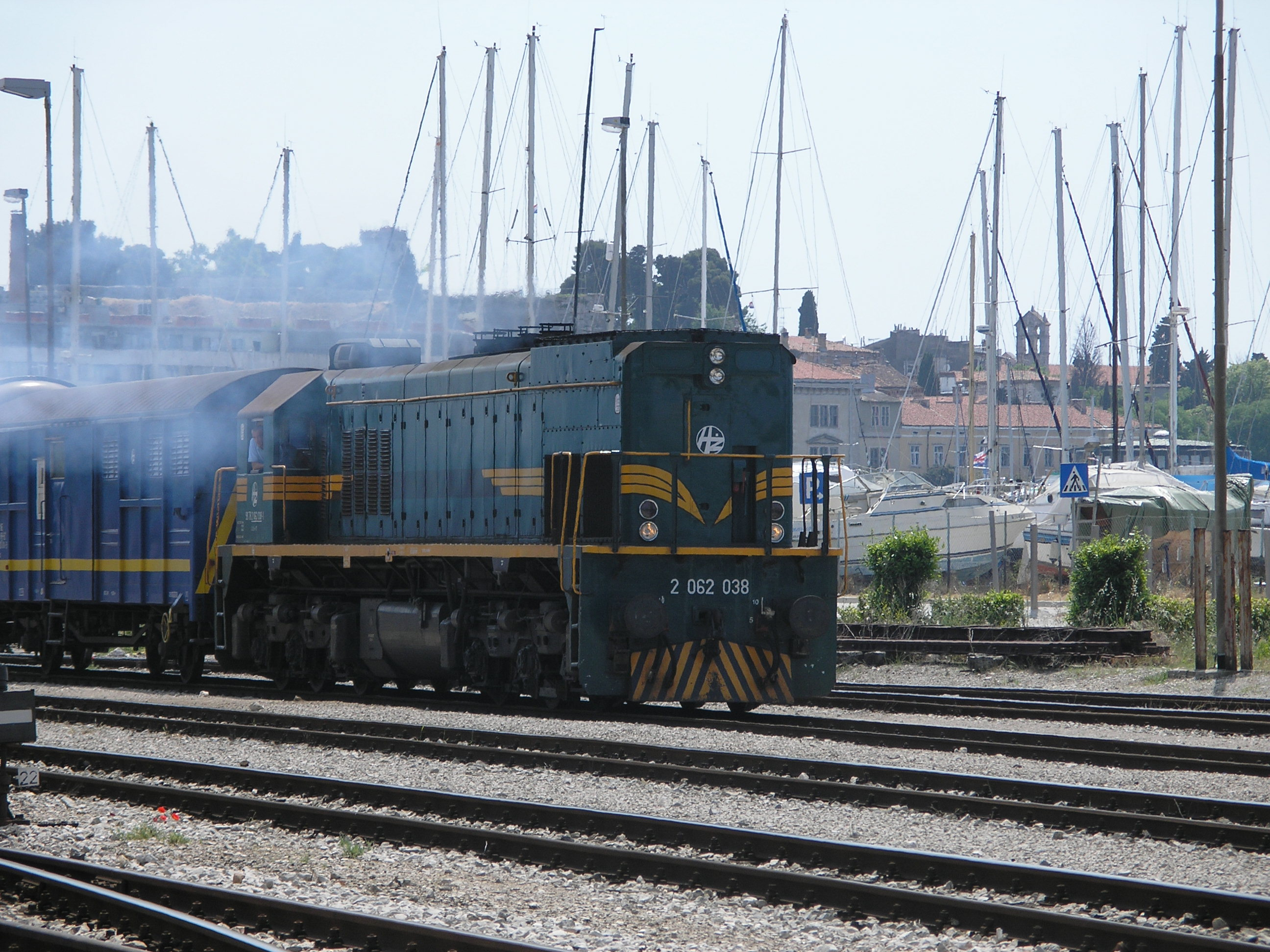 2062 036 locomotive (EMD G26) in Pula, Croatia